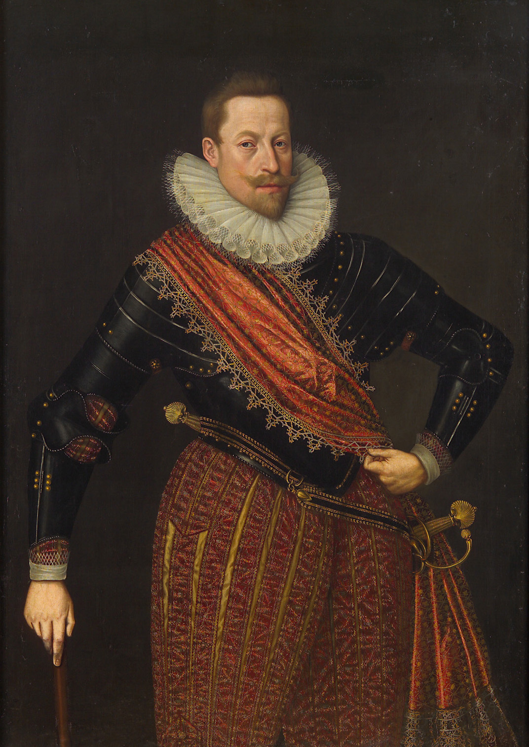 Matthias, Holy Roman Emperor.